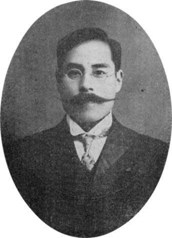 Mr. Heiji Oikawa.